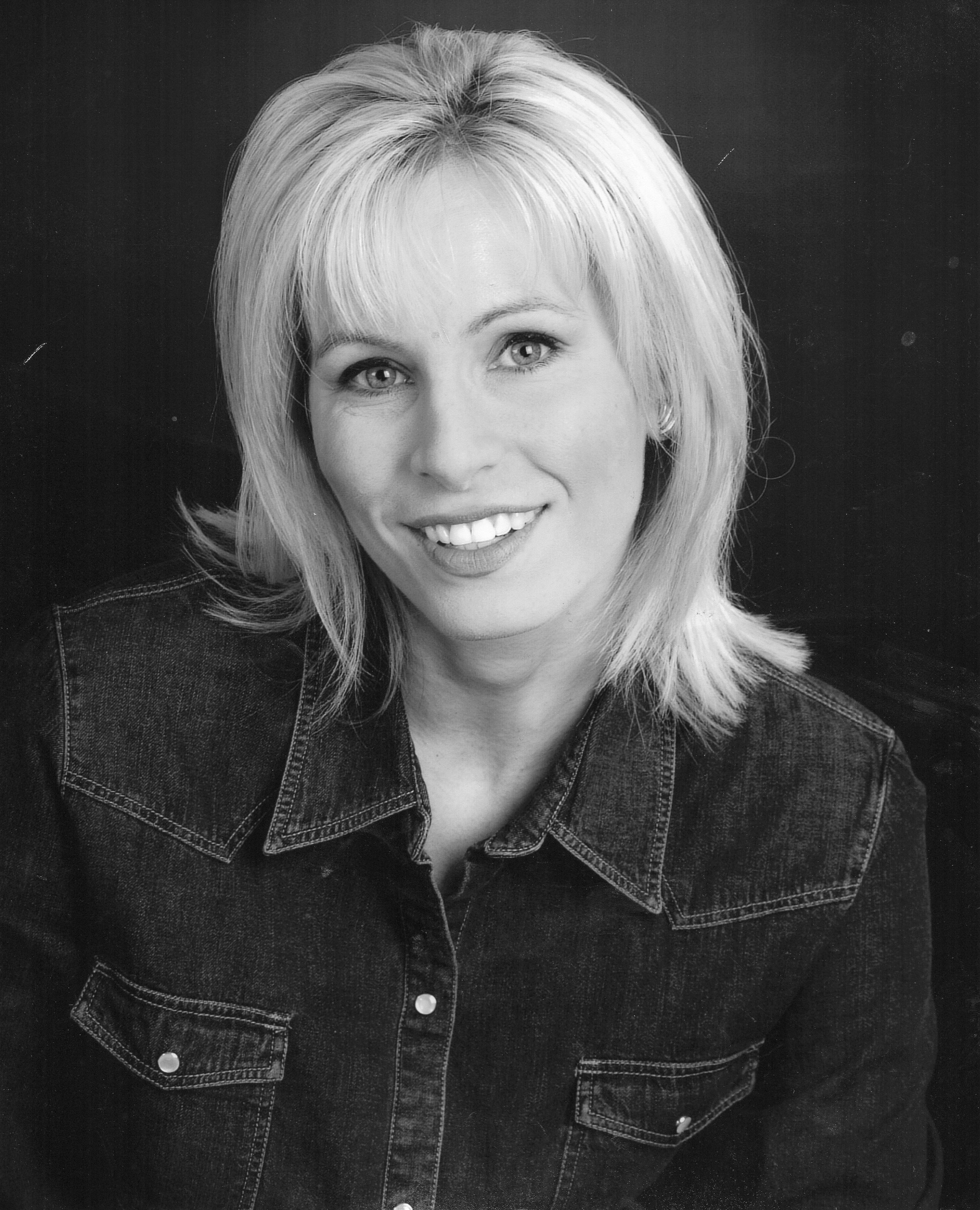 Donna Savarese - CBS television journalist and news anchor